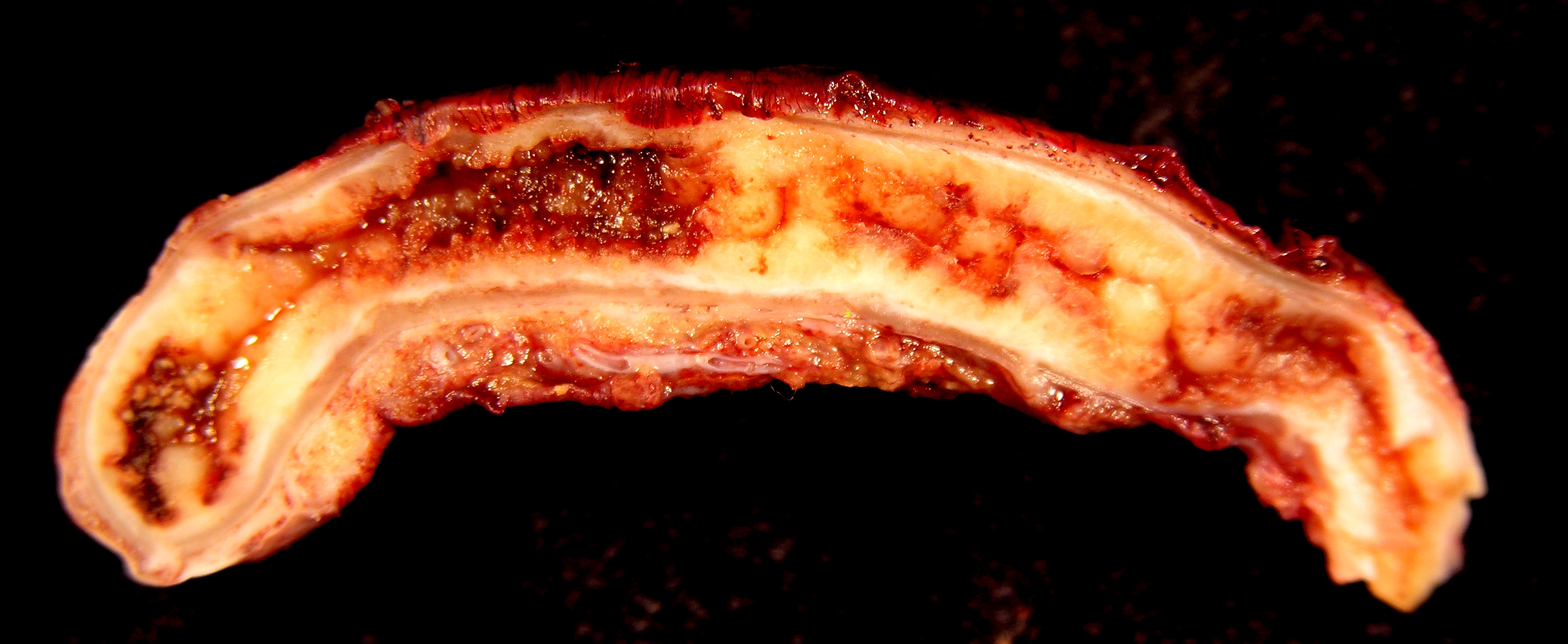 Acute Appendicitis An exemplary case of acute appendicitis in a 10-year-old boy. The organ is enlarged and sausage-like (botuliform). This longitudinal section shows red inflamed mucosa with an irregular luminal surface. Diagnosed and removed early in the course of the disease, this appendix does not show late complications, like transmural necrosis, perforation, and abscess formation. Note: This photo was shot with a Nikon Coolpix 8800 with no macro attachment or other accessory. I used the "Closeup" setting in the "Scene" mode after presetting the white balance against a standard grey card. The specimen is slightly raised over a black velvet background and illuminated by Photofloods. Editing, done with Picasa, consisted of cropping, sharpening, and adjusting levels. This is an example of one of my "quick 'n' dirty" specimen photos, requiring little time and equipment but still yielding acceptable results. If I were to shoot the same specimen for publication or competition, I would use a digital SLR with dedicated macro lens, spend more time preparing and propping up the specimen (to maximize the area in focus), take at least a dozen shots (rather than the two done for this one) with exposure bracketing, and do all editing in Photoship on the Mac at home (where I don't get a zillion interruptions).